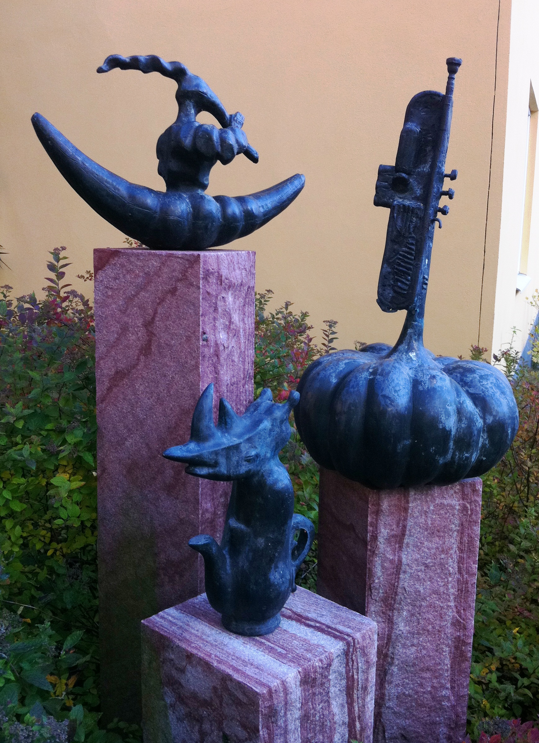 Basunerskans bön, sculpture by Liv Due, Skogås, Huddinge municipality, Sweden